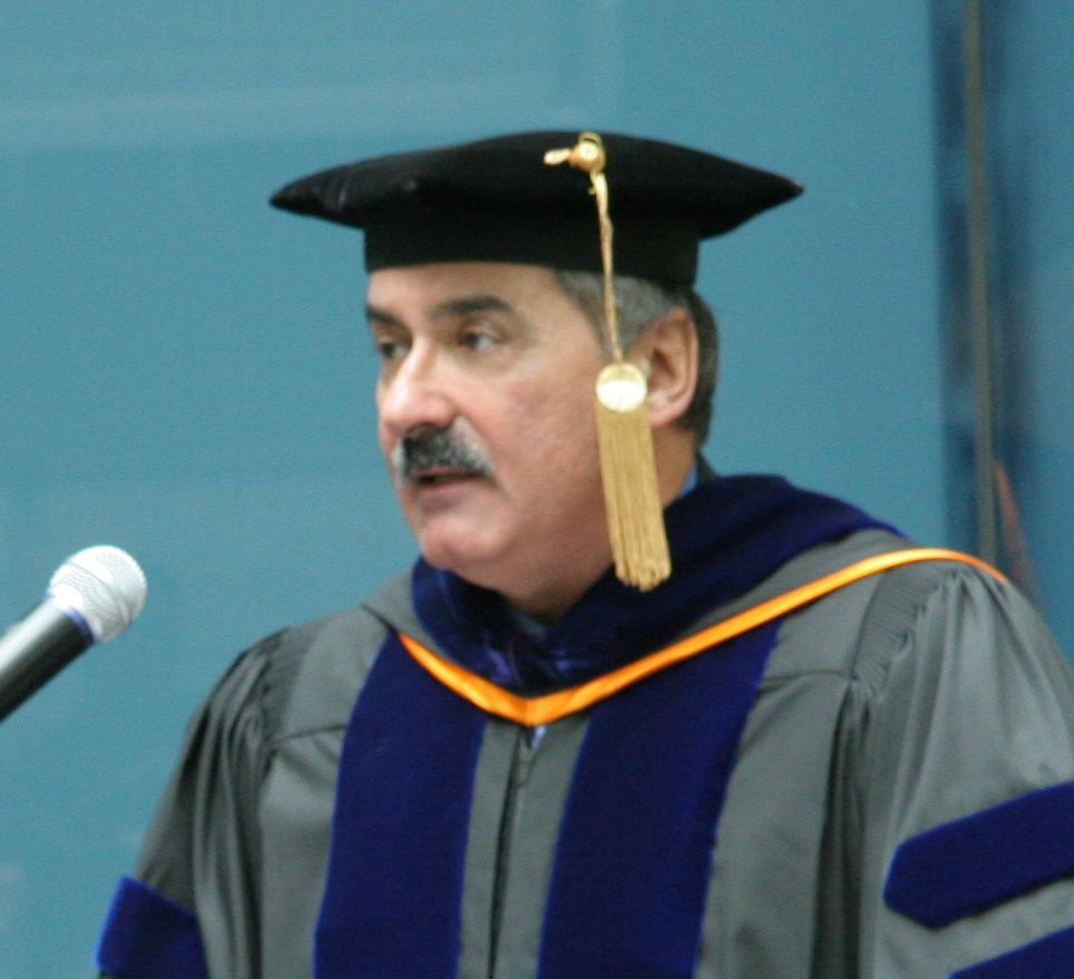 Cosmologist Edward "Rocky" Kolb speaking at Chicago's Shimer College for the 2010 commencement, as photographed and reported by Shimer student Jonathan Timm.